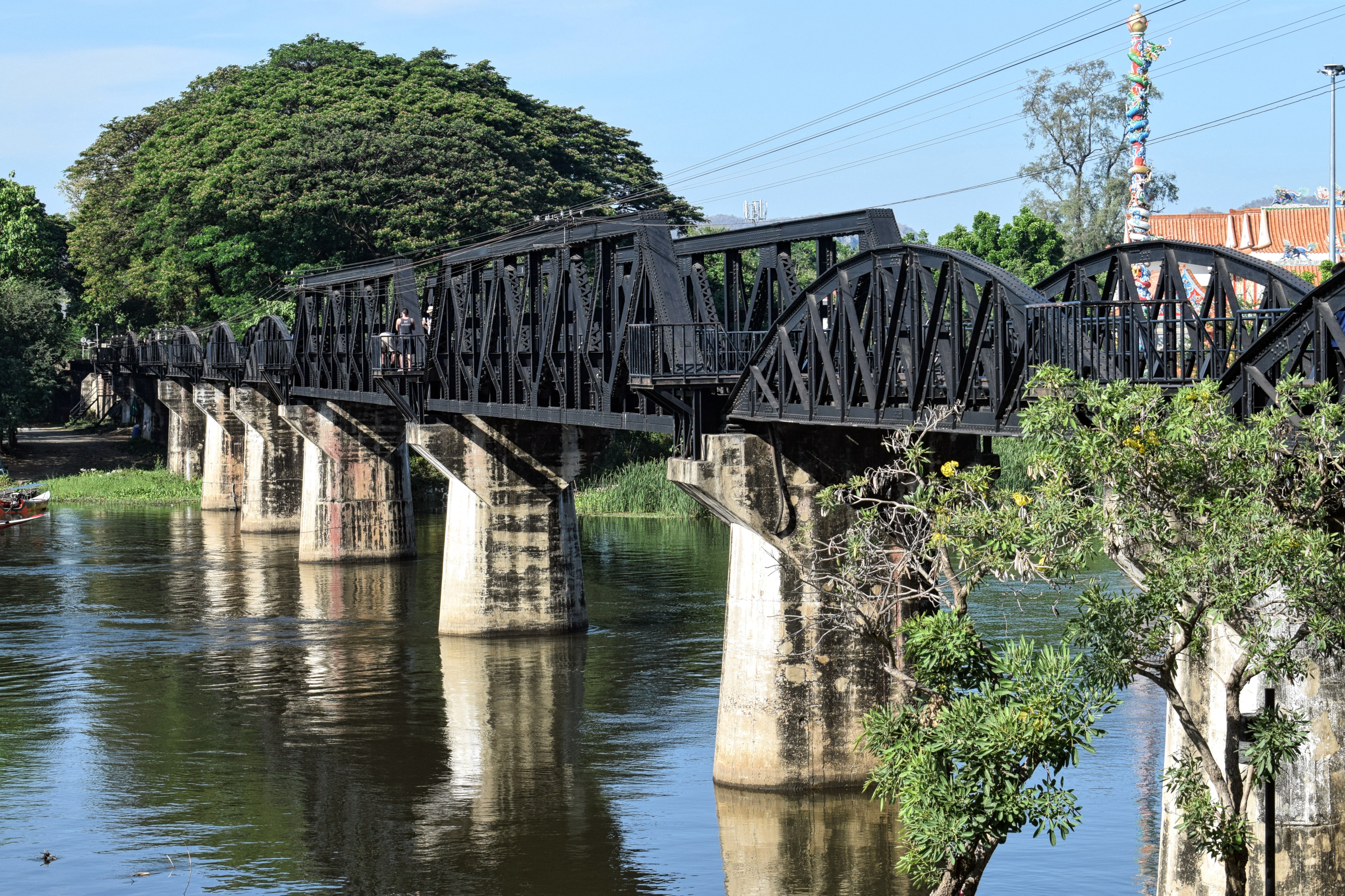 The River Kwai bridge as seen from the tourist plaza (NNE side) in Kanchanburi, Thailand.